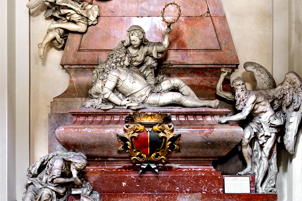 Tombstone of Vavlav Vratislav of Mitrovitz